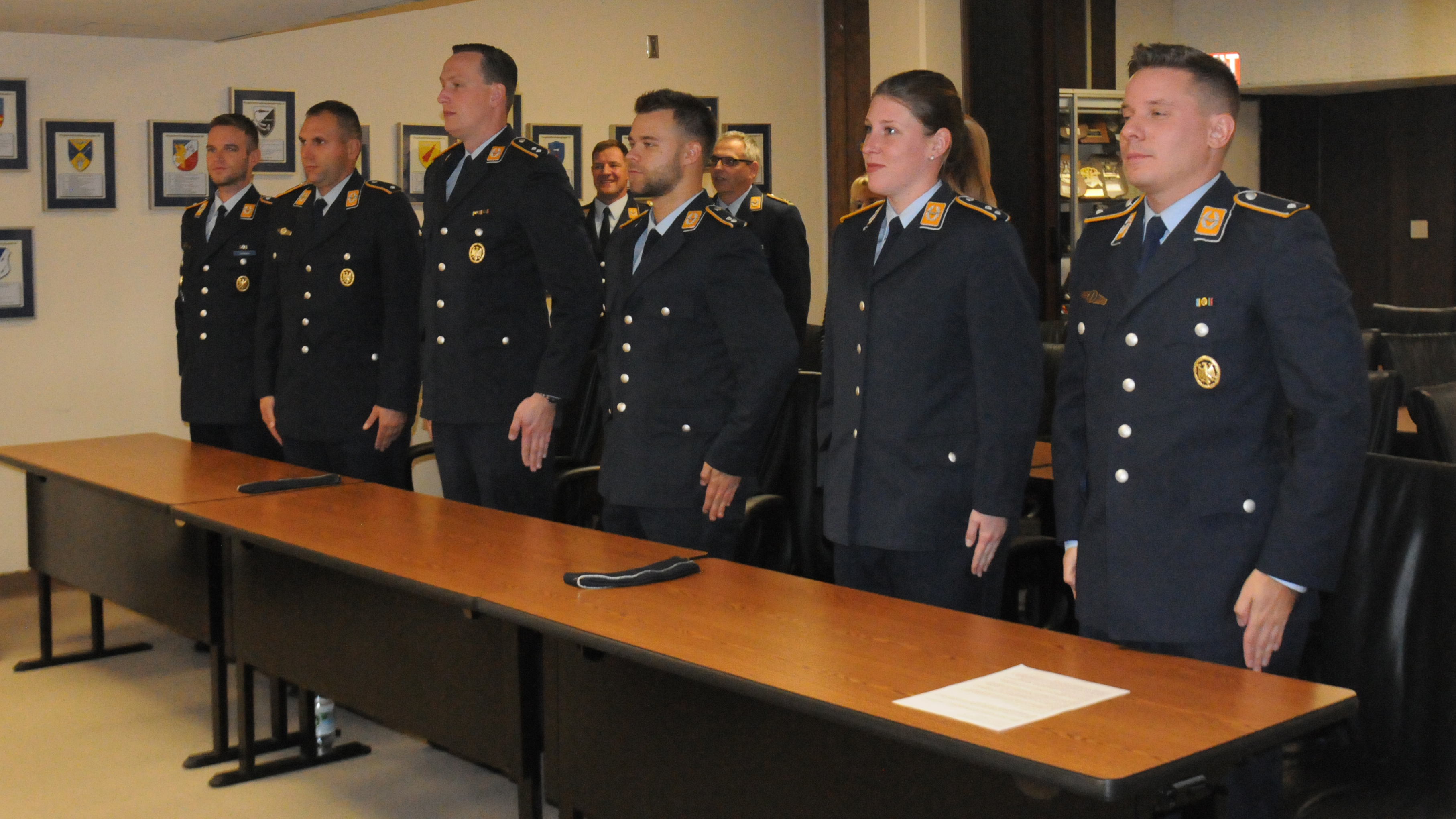 Six German Air Force officers graduated from the Tactical Control Officers course at the German Air Force Air Defense Center at Fort Bliss, Texas, Dec. 11. The course, equivalent to the U.S. Army Air Defense Artillery Officer Basic Course, teaches the tactics, techniques and procedures needed to employ the PATRIOT air defense system. The German Air Force has been training its air defense personnel here since 1956.